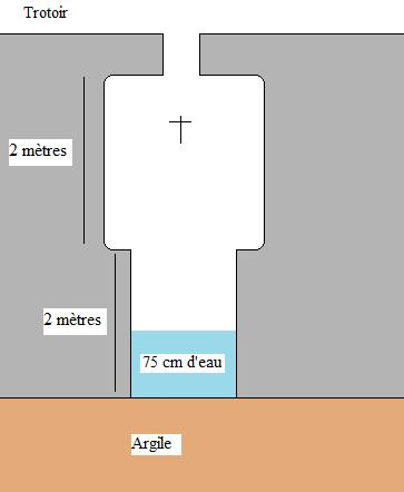 Sainte Pharaïlde 's fountain underground